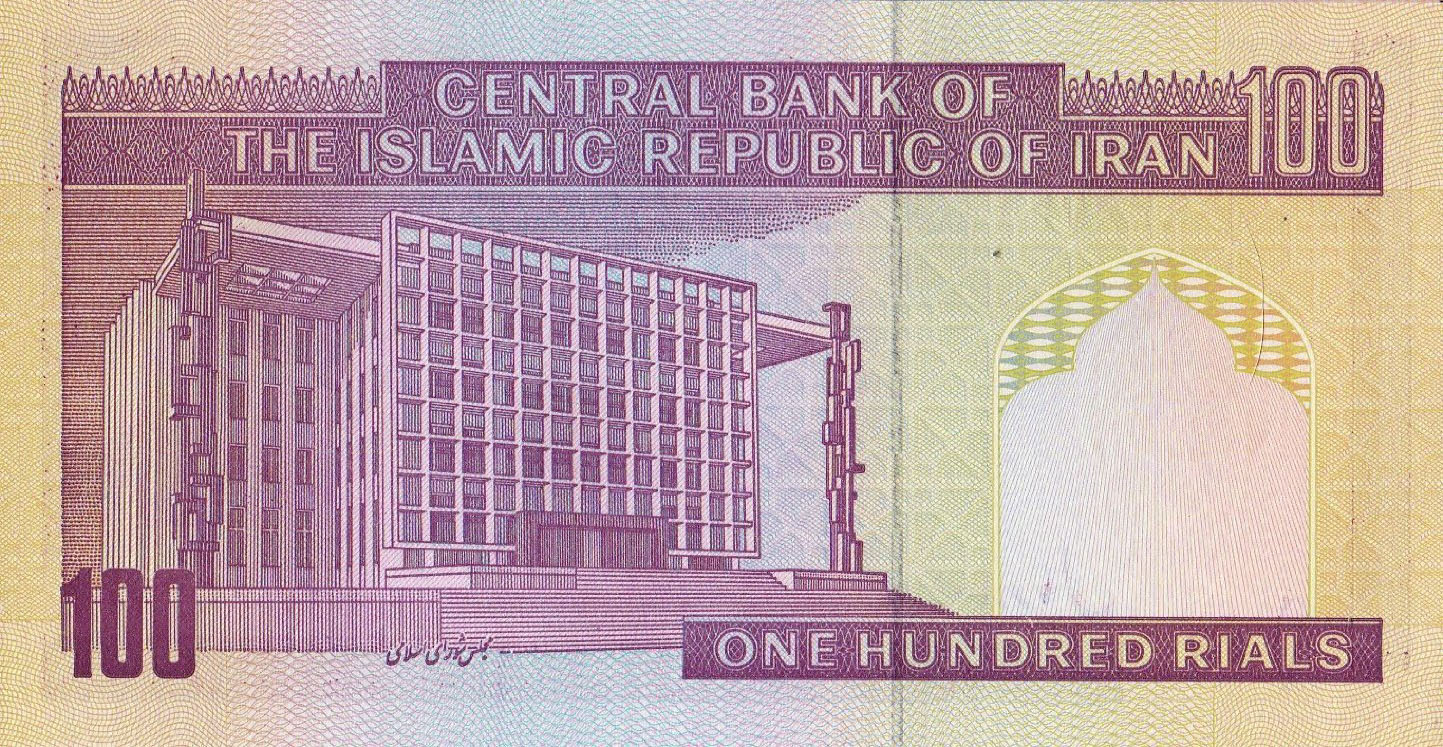 100 Rials Iranian Bank Note